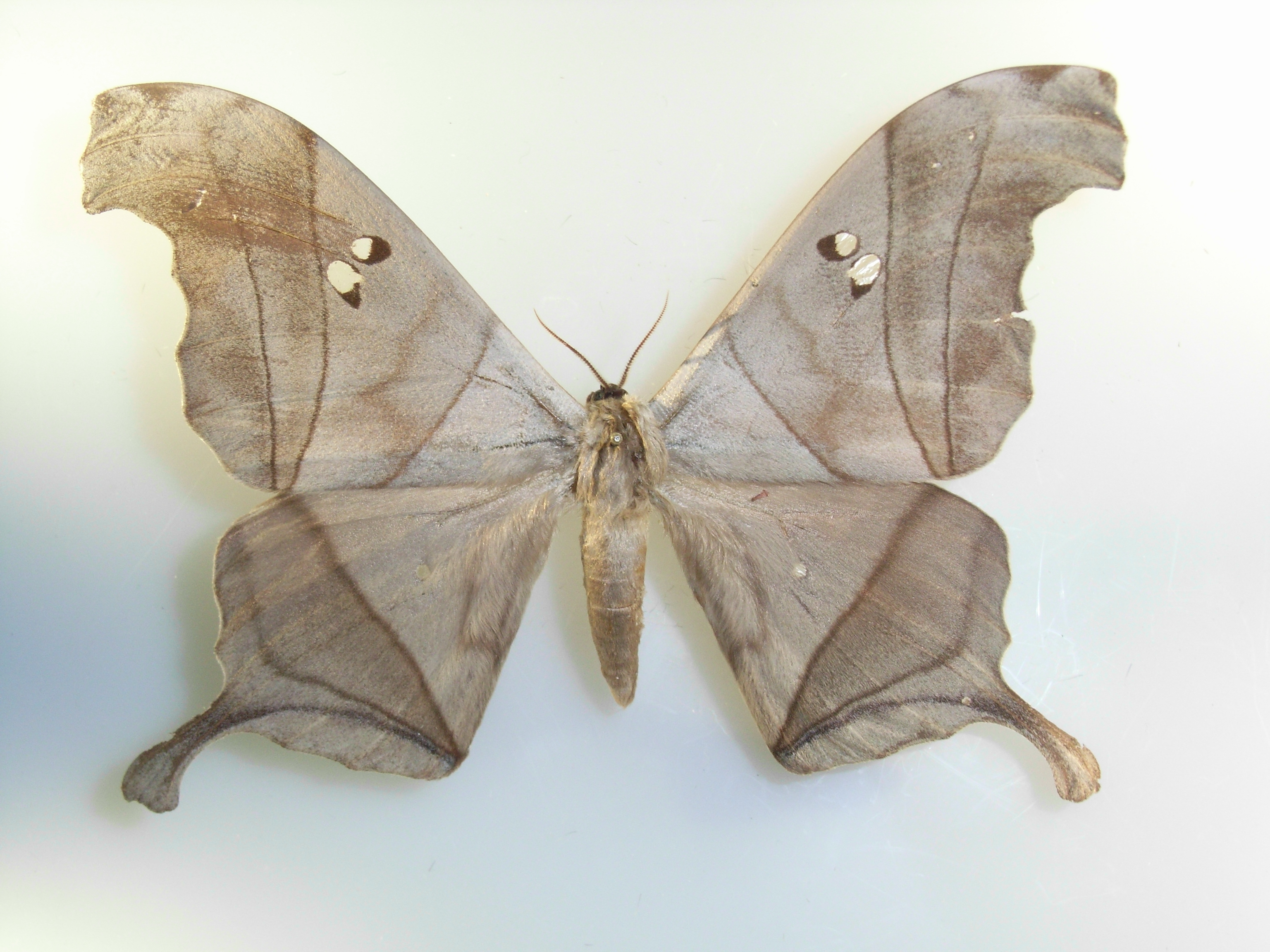 Dysdaemonia boreas (Cramer, [1775]) Ex coll. Felix Stumpe